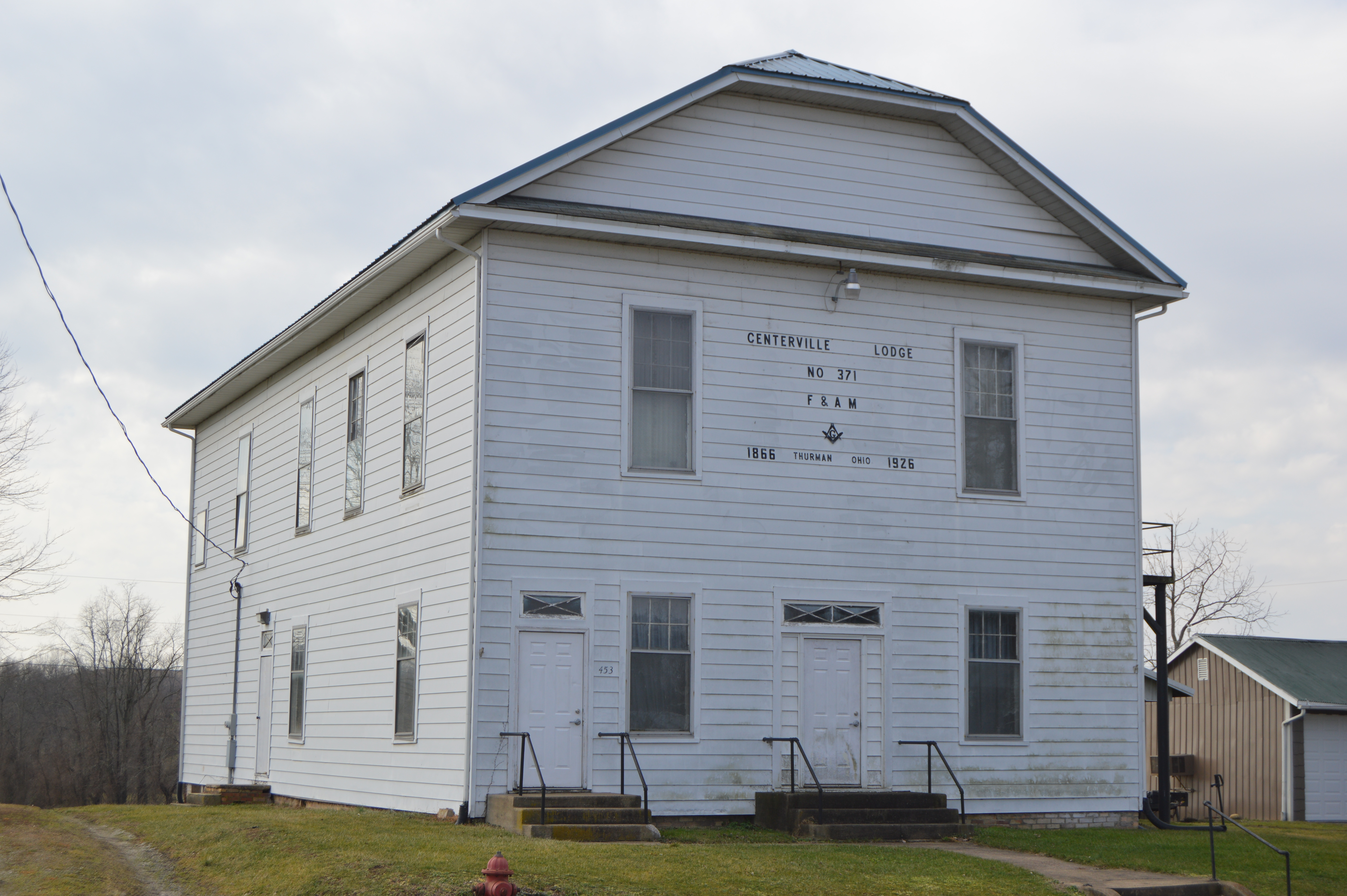 Front and eastern side of the Centerville Lodge 371 building, located at the intersection of State (State Route 279) and Vinton Streets in Centerville, Ohio, United States.